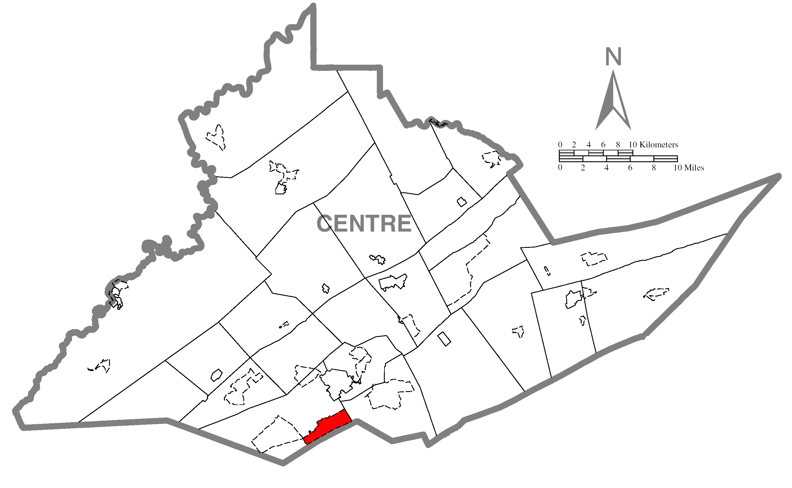 A map of Centre County showing Pine Grove Mills, Pennsylvania (alternate) highlighted on the map.